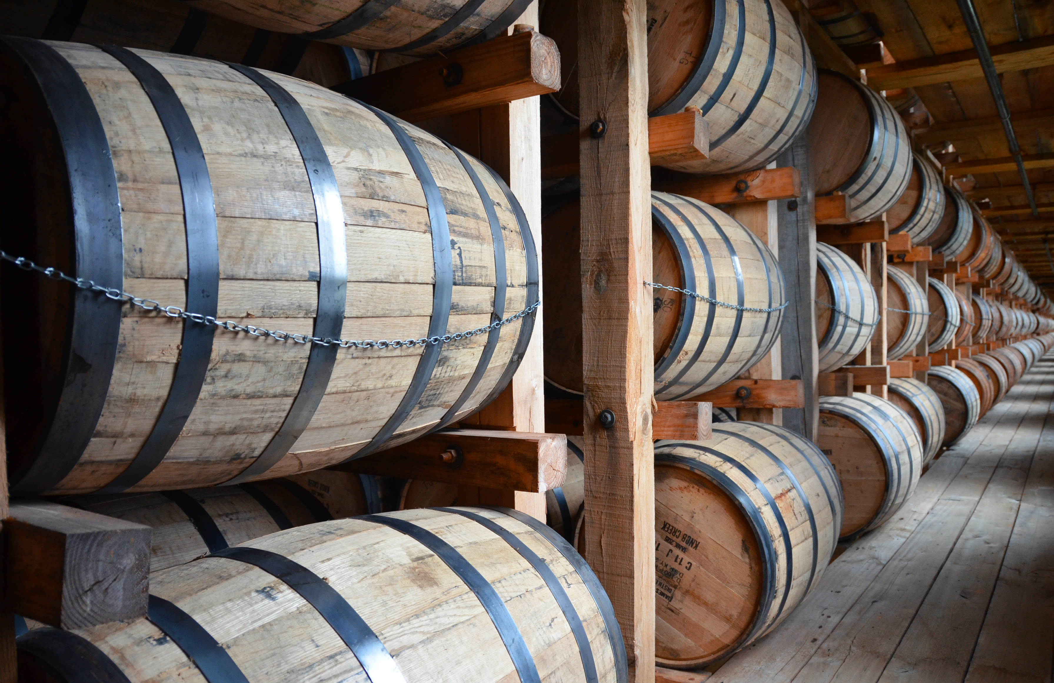 One of 27 rack houses for maturing Jim Beam bourbon whiskey located in Clermont, Kentucky. WHSE 'Z' Capacity: 50,400 barrels